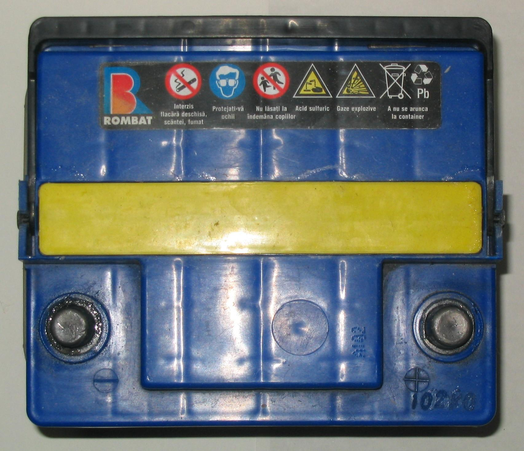 Description: Car battery Author, date of creation: selfmade by Shaddack, 6 November 2005 Source: self-made Copyright: Public Domain (PD) Comments: Lead-acid battery for car, top view